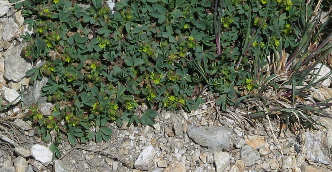 Sibbaldia procumbens